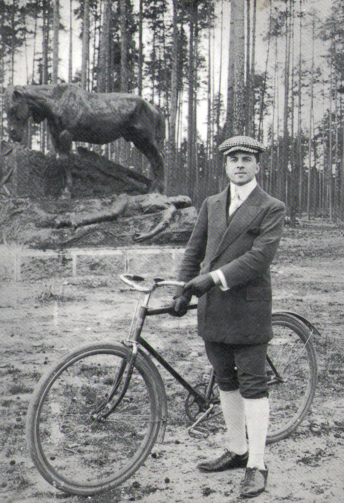 Finnish sculptor and silhouette artist Emil Cedercreutz (1879–1949) ca. 1910 at his home in Köyliö, Finland.